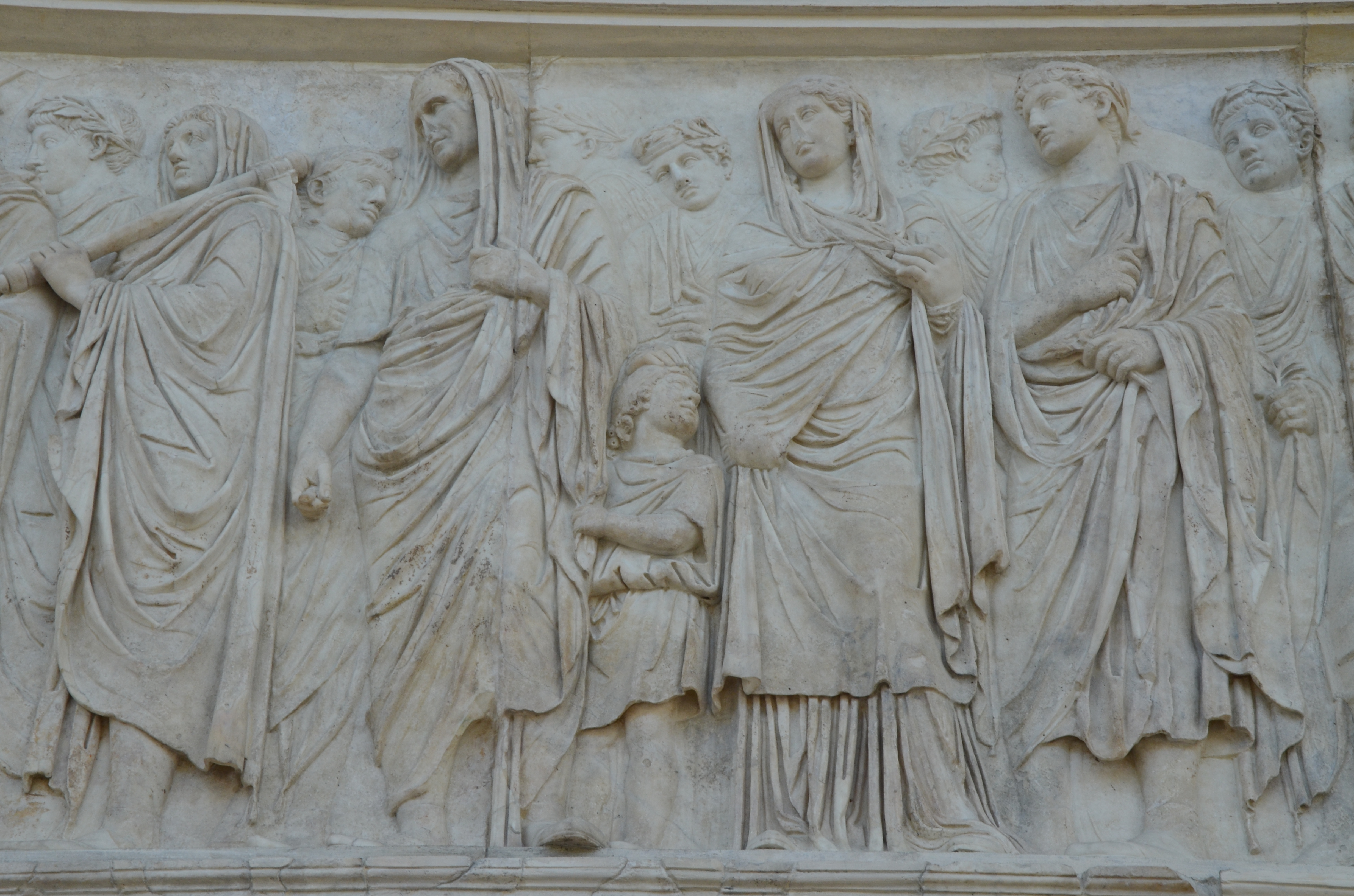 The Ara Pacis Augustae or Altar of the Augustan Peace, built to celebrate the return of Augustus to Rome in 13 BC following campaigns in Spain and Gaul, Museo dell'Ara Pacis, Rome